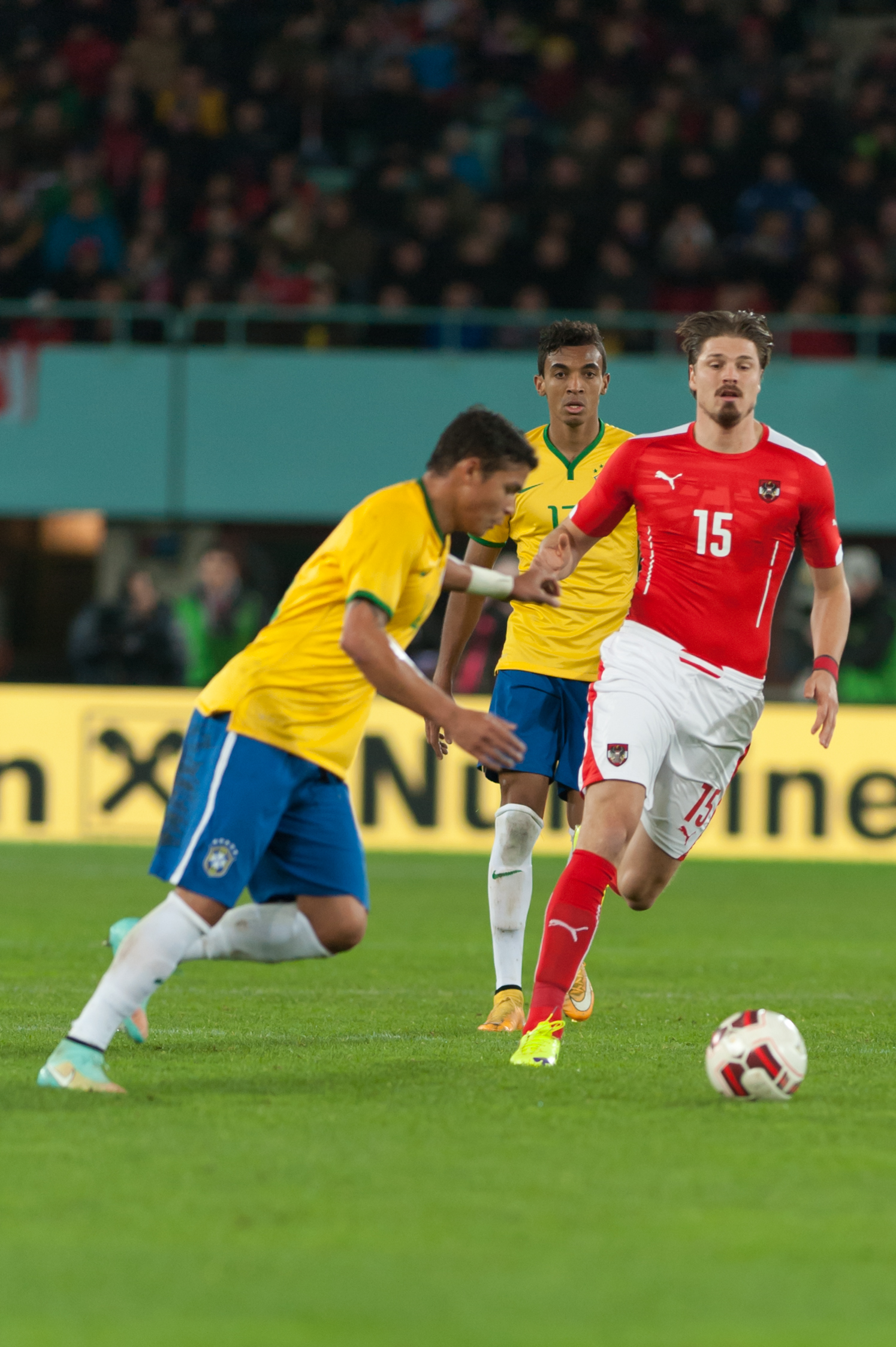 International Friendly Austria - Brazil November 18, 2014: Luiz Gustavo, Sebastian Prödl